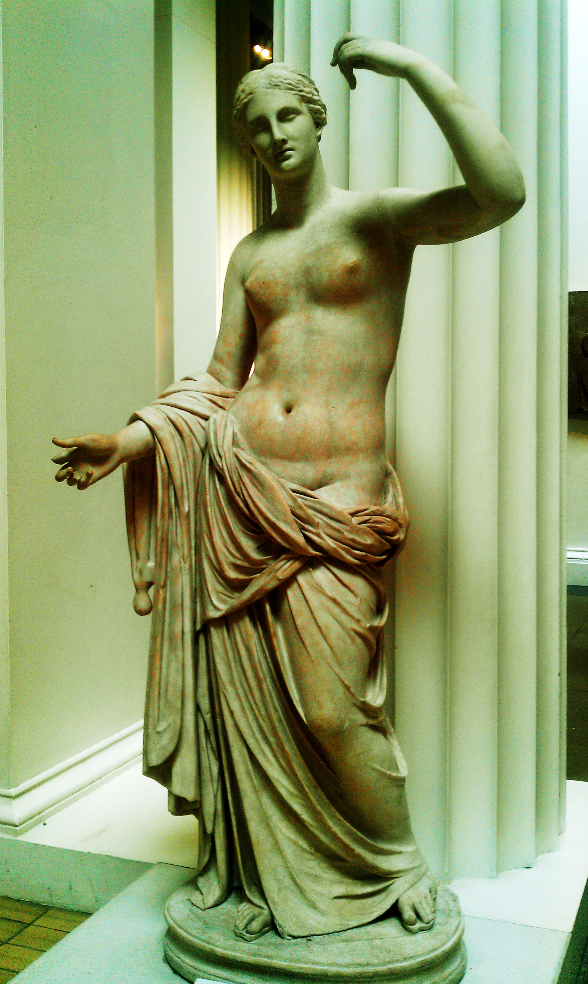 The Townley Venus (marble) Proconnesian marble statue of Venus. Excavated/Findspot Ostia (Excavated by Gavin Hamilton) Adapted from a lost Greek original of the 4th century BC. The arms were restored in the 18th century and the statue was set in another plinth, thereby changing the original pose and viewpoint.